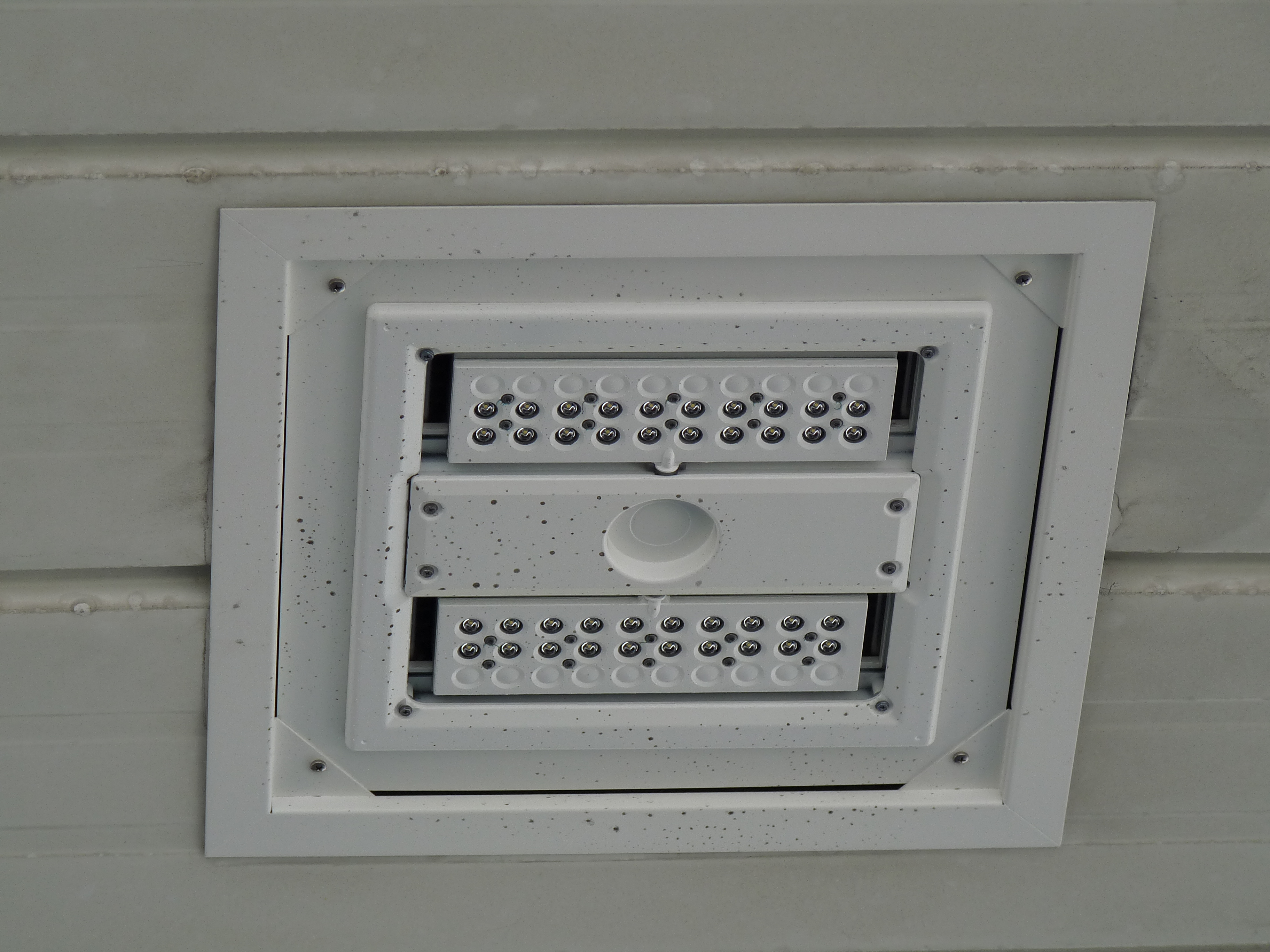 LED outdoor lamp in Tallinn, Estonia